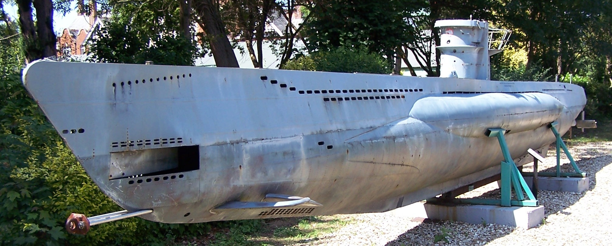 Bletchley Park, scale model of German WWII submarine, used in the movie Enigma and later donated to the museum. Photo Cnyborg, July 2005